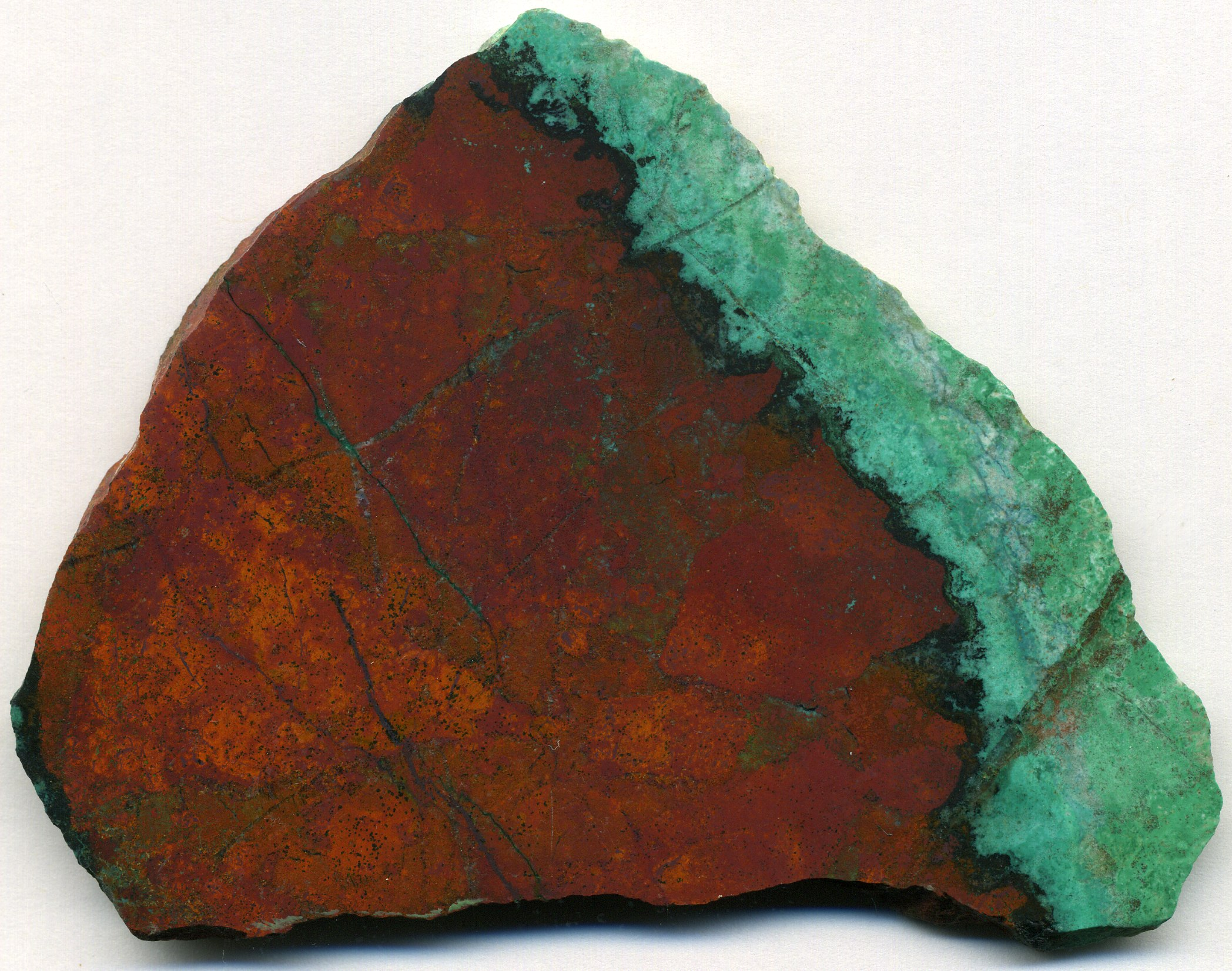 Cuprite-tenorite-chrysocolla (polished cut slice, 10.4 cm across at its widest) from the Paleocene of Mexico. This is copper oxide rock from Mexico's Milpillas Copper Mine. It contains reddish cuprite (Cu2O - copper oxide), black tenorite (CuO - copper oxide), and slightly bluish-green chrysocolla ((Cu,Al)2H2Si2O5(OH)4·nH2O - hydrous copper aluminum hydroxy-silicate). The mine targets the Milpillas Orebody, a partially oxidized "porphyry copper" deposit. The nonoxidized portions of the deposit have chalcopyrite and bornite disseminated in breccias and stockwork veins, capped by a supergene-enriched blanket of chalcocite. The cuprite-tenorite-chrysocolla only occurs in the oxidized portions of the chalcocite blanket. Geologic unit & context & age: Milpillas Orebody, Danian Stage, Early Paleocene (63.1 Ma), hosted mostly in rhyolite and porphyritic quartz monzonite stocks emanating from the Cuitaca-Tinaja Batholith (a Laramide Orogeny intrusive complex dating to 63.9 Ma) + Jurassic and Upper Cretaceous-Paleocene volcanics. Locality: Milpillas Mine, Rancho Milpillas, Cuitaca Graben (produced by crustal extension at 12 to 27 Ma; now covered with gravels & alluvium), Cananea Mining District, 25 km northwest of Cananea, Santa Cruz Municipality, northern Sonora State, northwestern Mexico (31° 06' 25.47" North, 110° 25' 30.24" West).